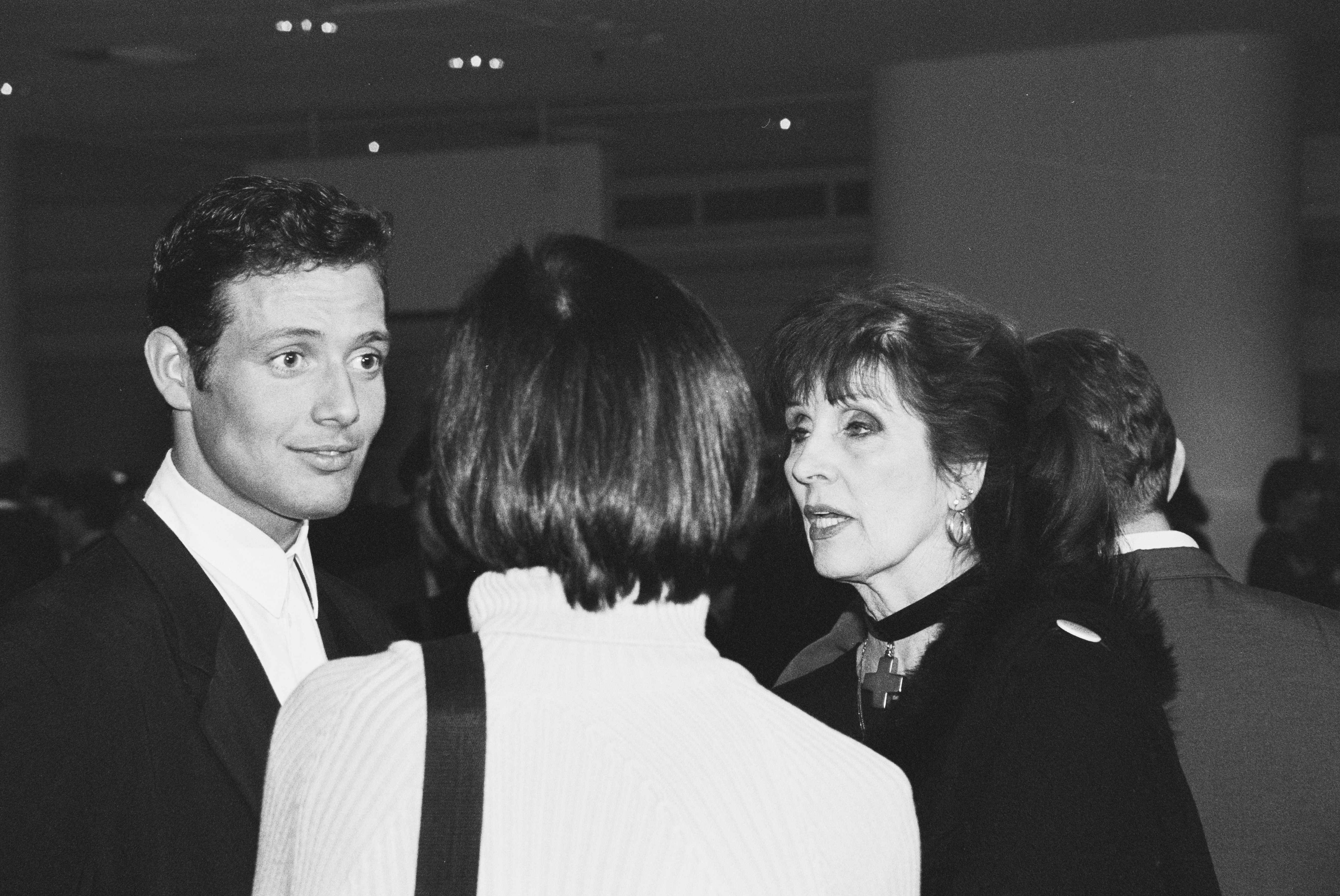 Photograph of the Finnish dressage rider Marko Björs (1969–) and dancer Aira Samulin (1927–) during the election night among Elisabeth Rehn’s campaign crew.